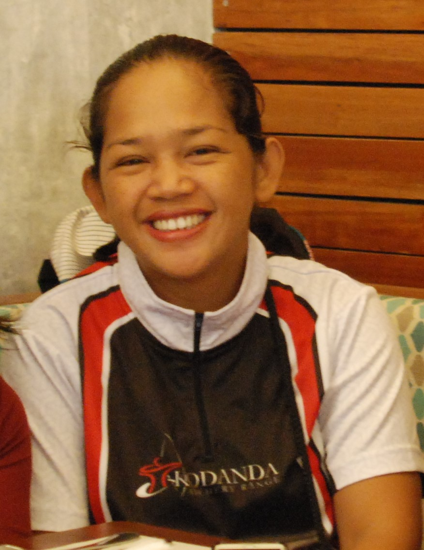 Olympic archer Jasmin Figueroa in 2017